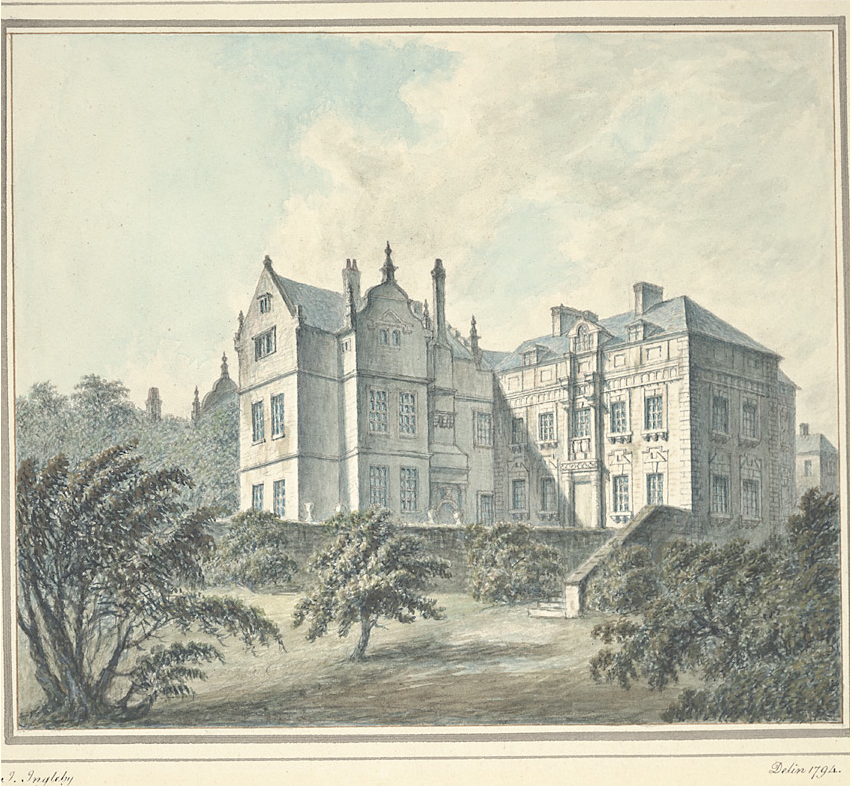 Brymbo Hall 1794